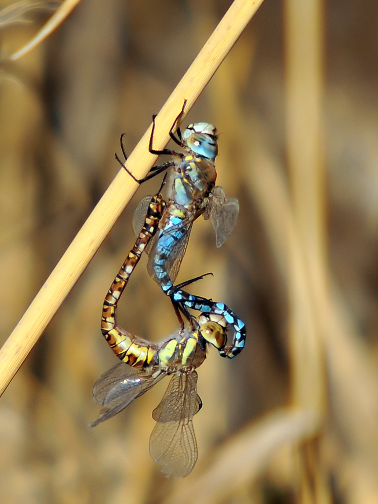 Dragonfly